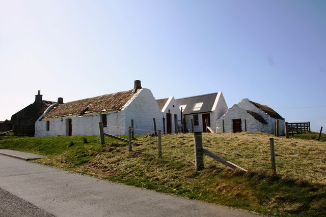 Easthouse Croft A thatched croft one of only two thatched projects on Shetland it has attracted funding and appeared on BBC TV.